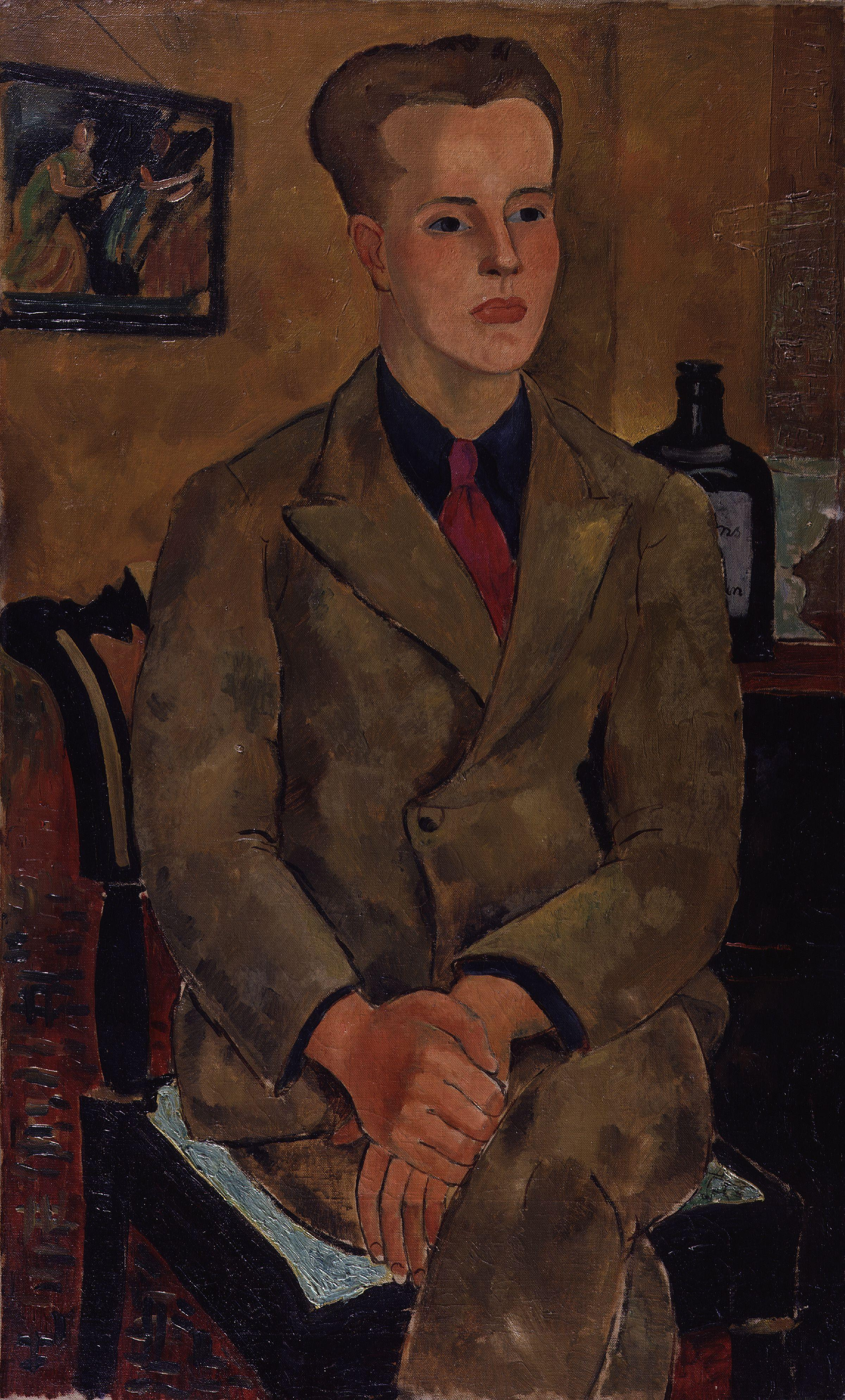 Constant Lambert, by Christopher Wood (died 1930). All images in this batch have been confirmed as author died before 1939 according to the official death date listed by the NPG.